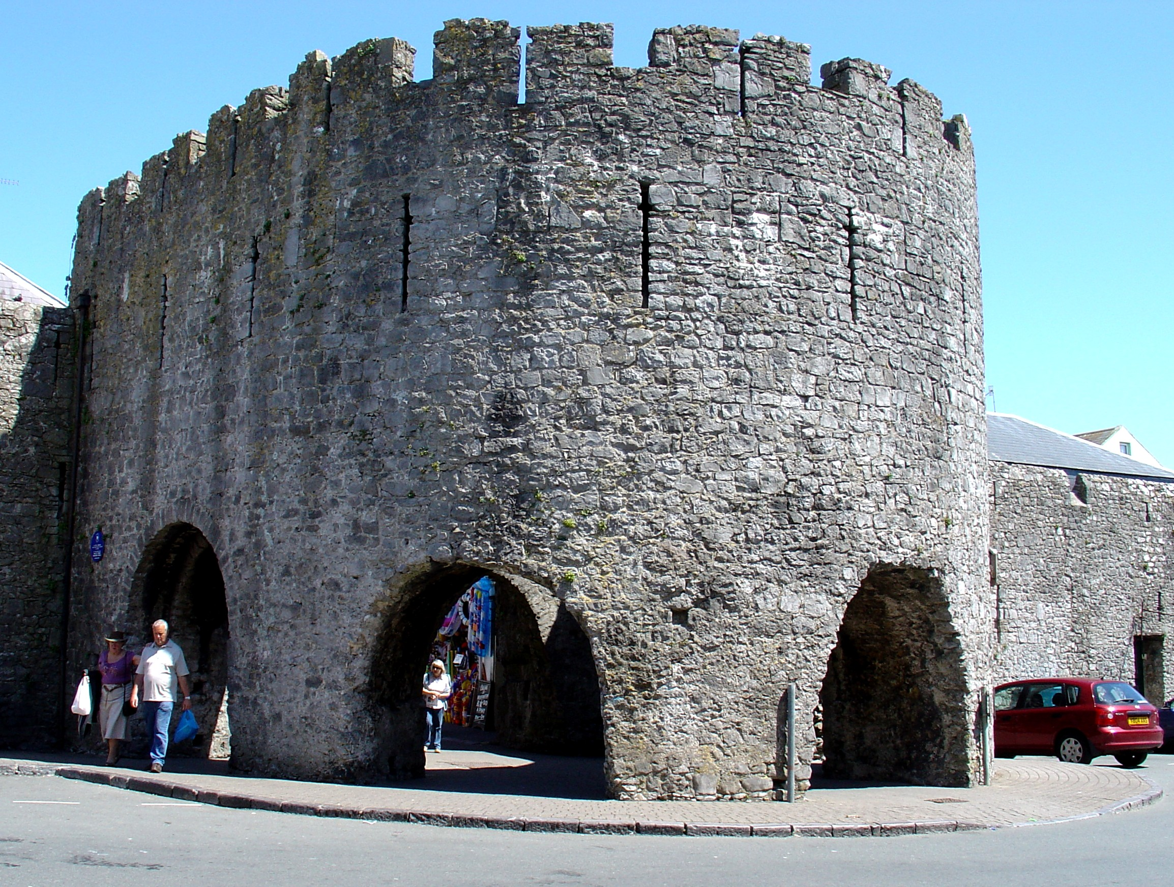 View of the Five Arches barbican Gate at Tenby. Taken by Aeronian on 4 June, 2007 using Sony DSC VI digital camera Aeronian's images User:Aeronian/Images